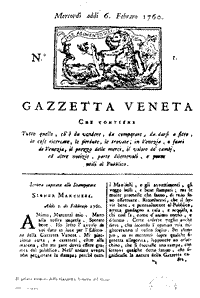 Gazzetta Veneta-1760 6 Feb title page.